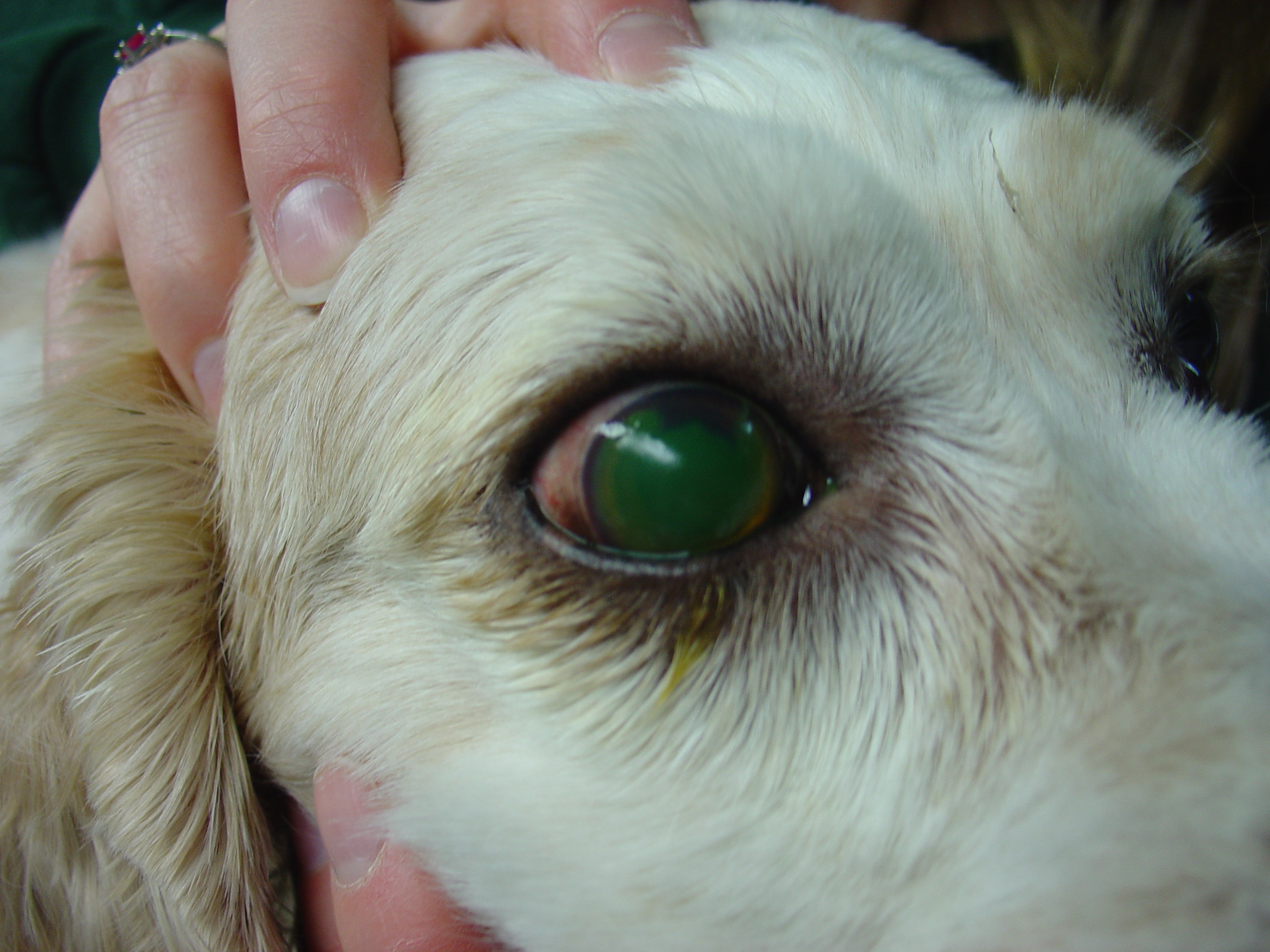 Large superficial corneal ulcer in a Cocker Spaniel stained with fluorescein.